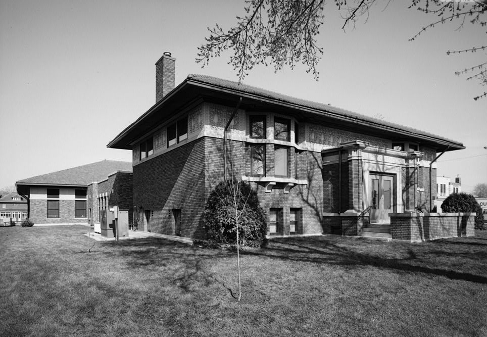 Detroit Lakes Carnegie Library in Detroit Lakes, Minnesota, listed on the National Register of Historic Places.